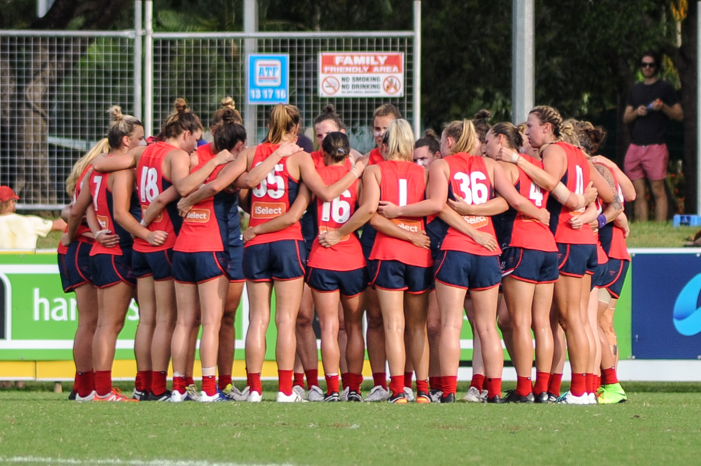 Melbourne AFL Women's team huddle prior to the round six match against Adelaide at TIO Stadium.